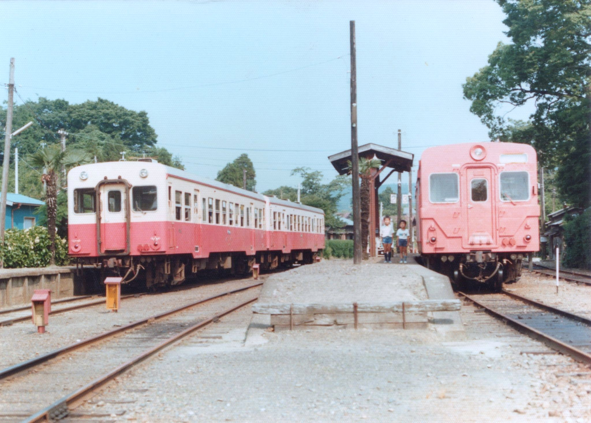 Kominato Railway KiHa 200 (left) and JNR KiHa 30 DMUs at Kazusa-Nakano Station on the JNR Kihara Line (present-day Isumi Railway)